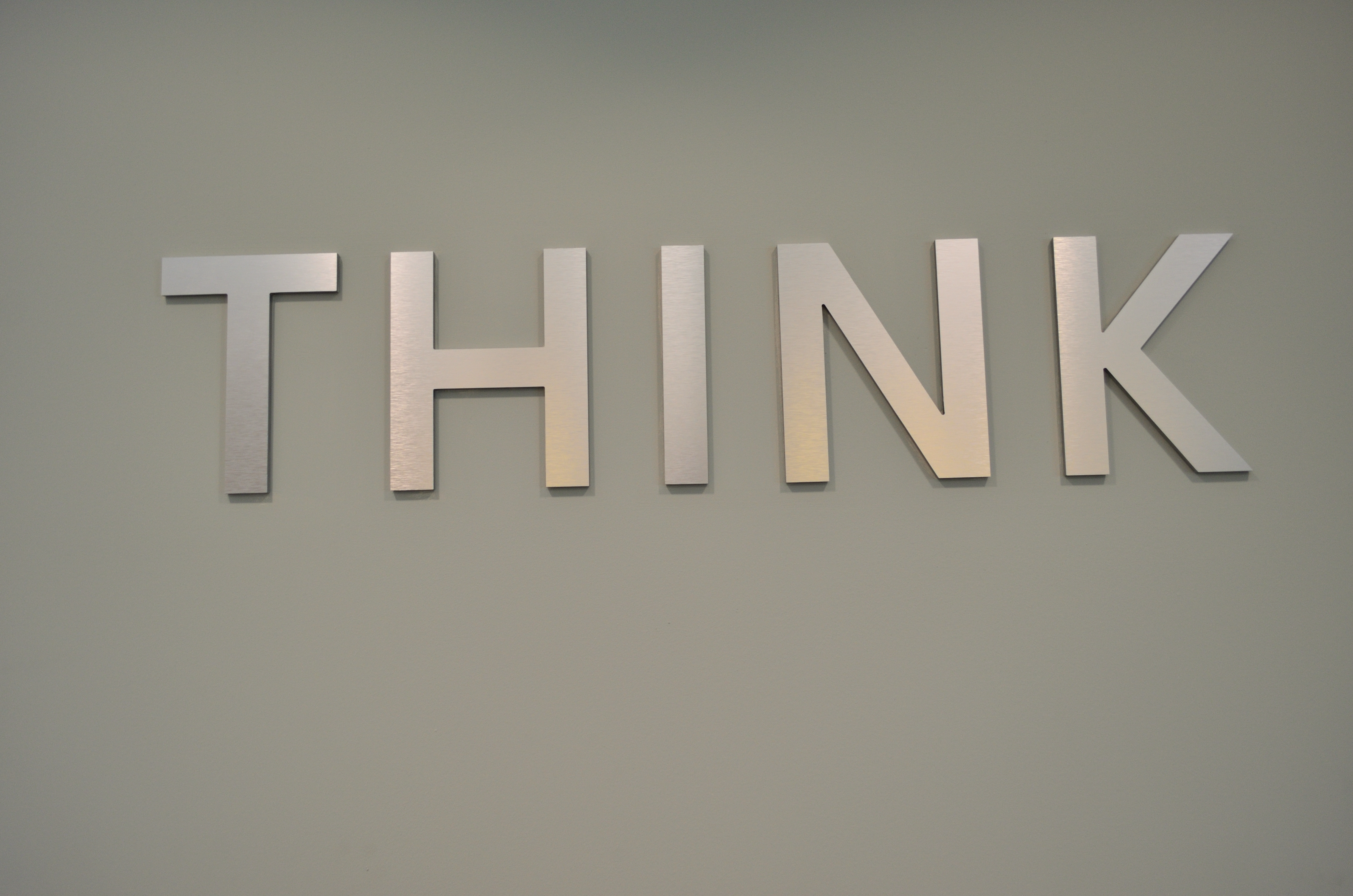 IBM Think sign